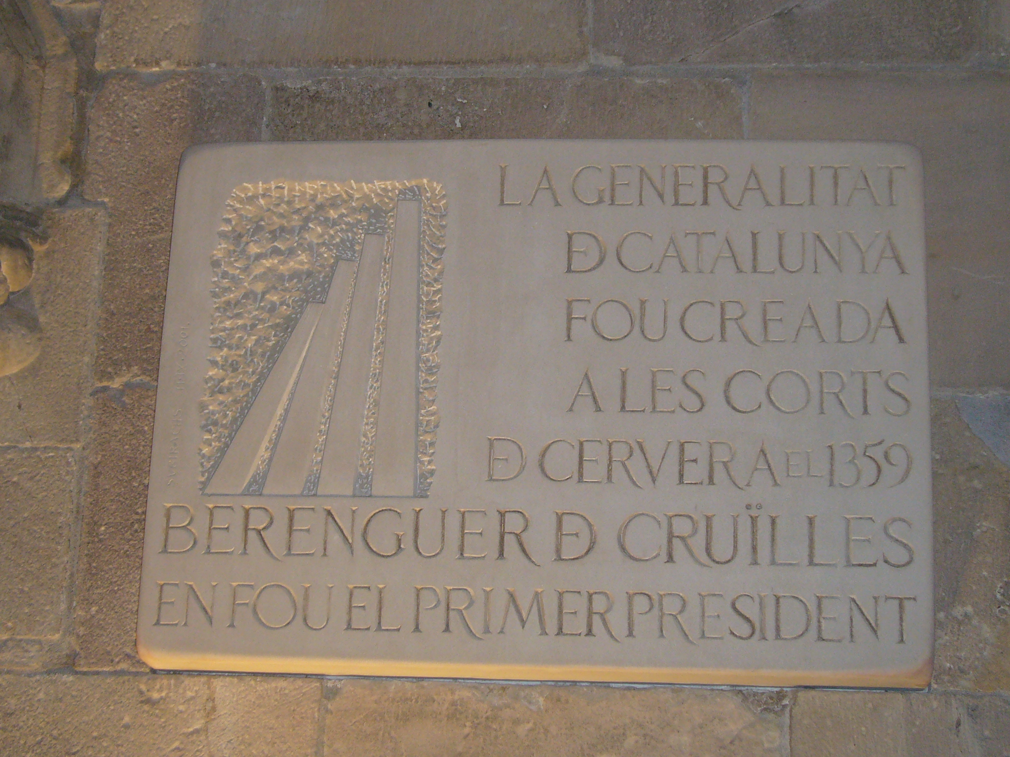 Pati dels Tarongers of the Generalitat Palace. Mention to Berenguer de Cruïlles, first president of the Generalitat (1359).